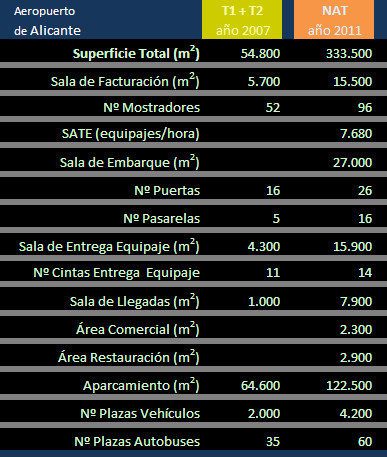 Alicante Airport: Terminal Buildings